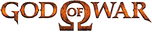 The logotype for "God of War".